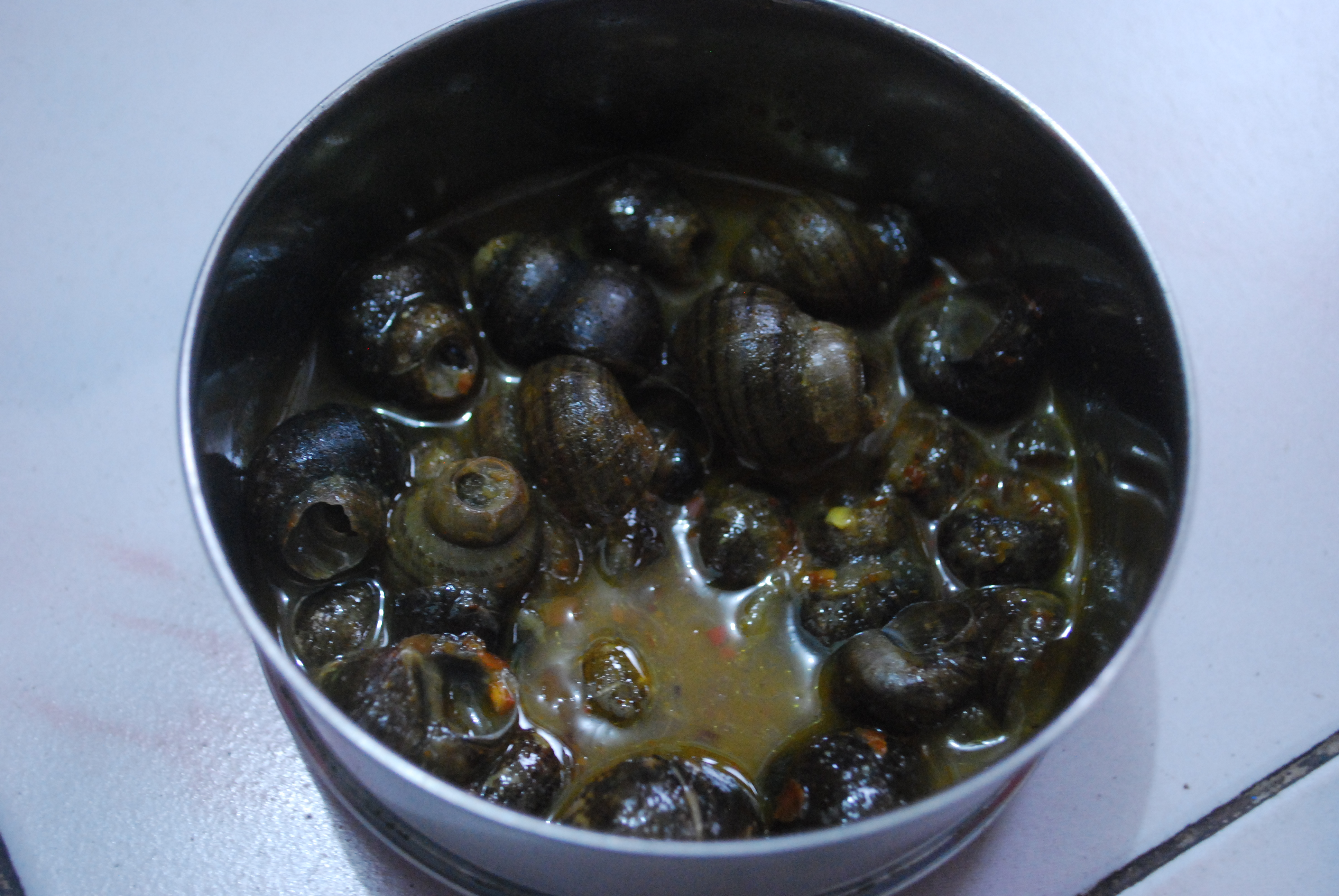 घोङ्गइ